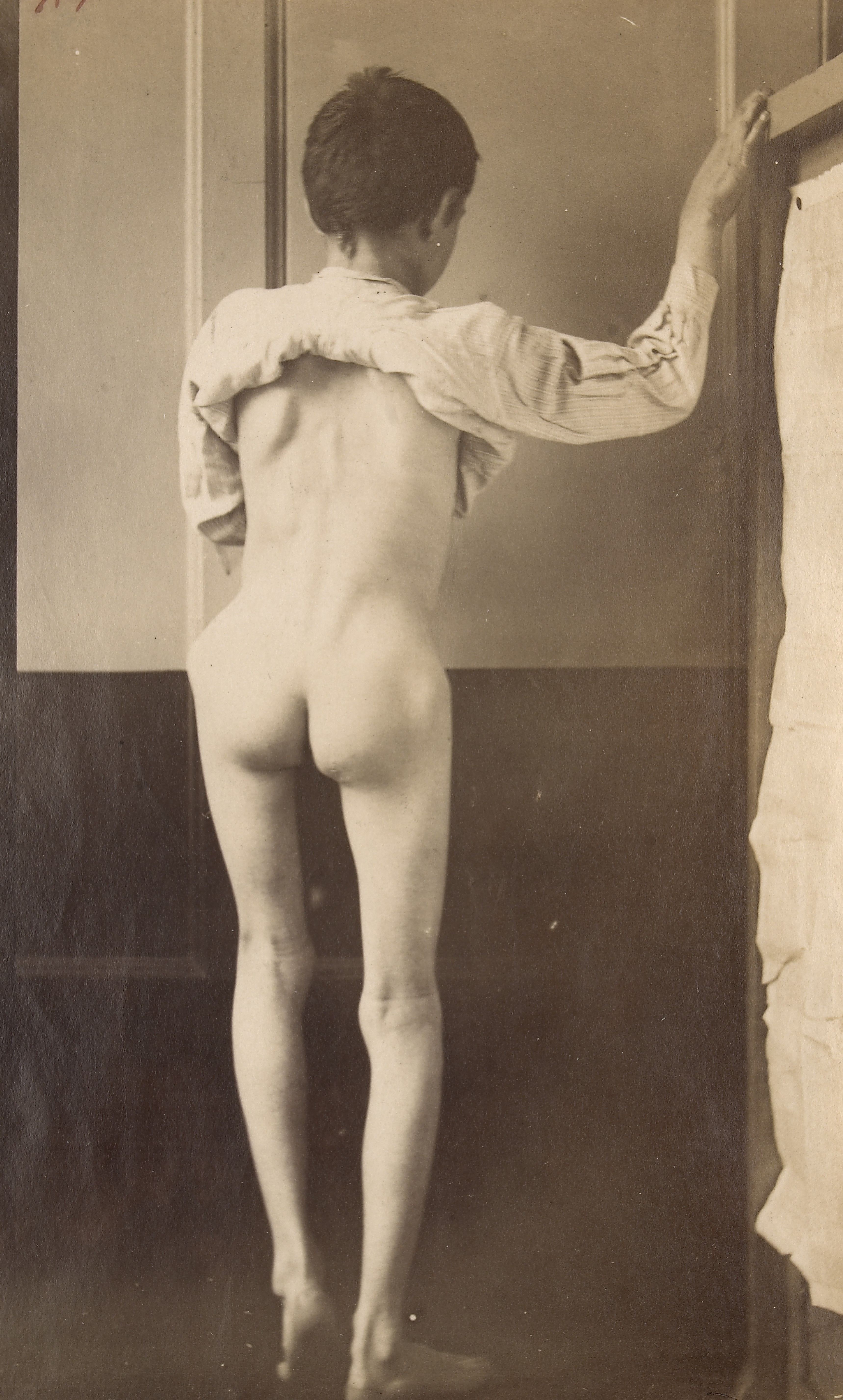 Full length, black and white photograph of a boy who had congenital dislocation of his left hip. Several other members of the same family had a similar abnormality. Medical Photographic Library Keywords: Godart, Thomas